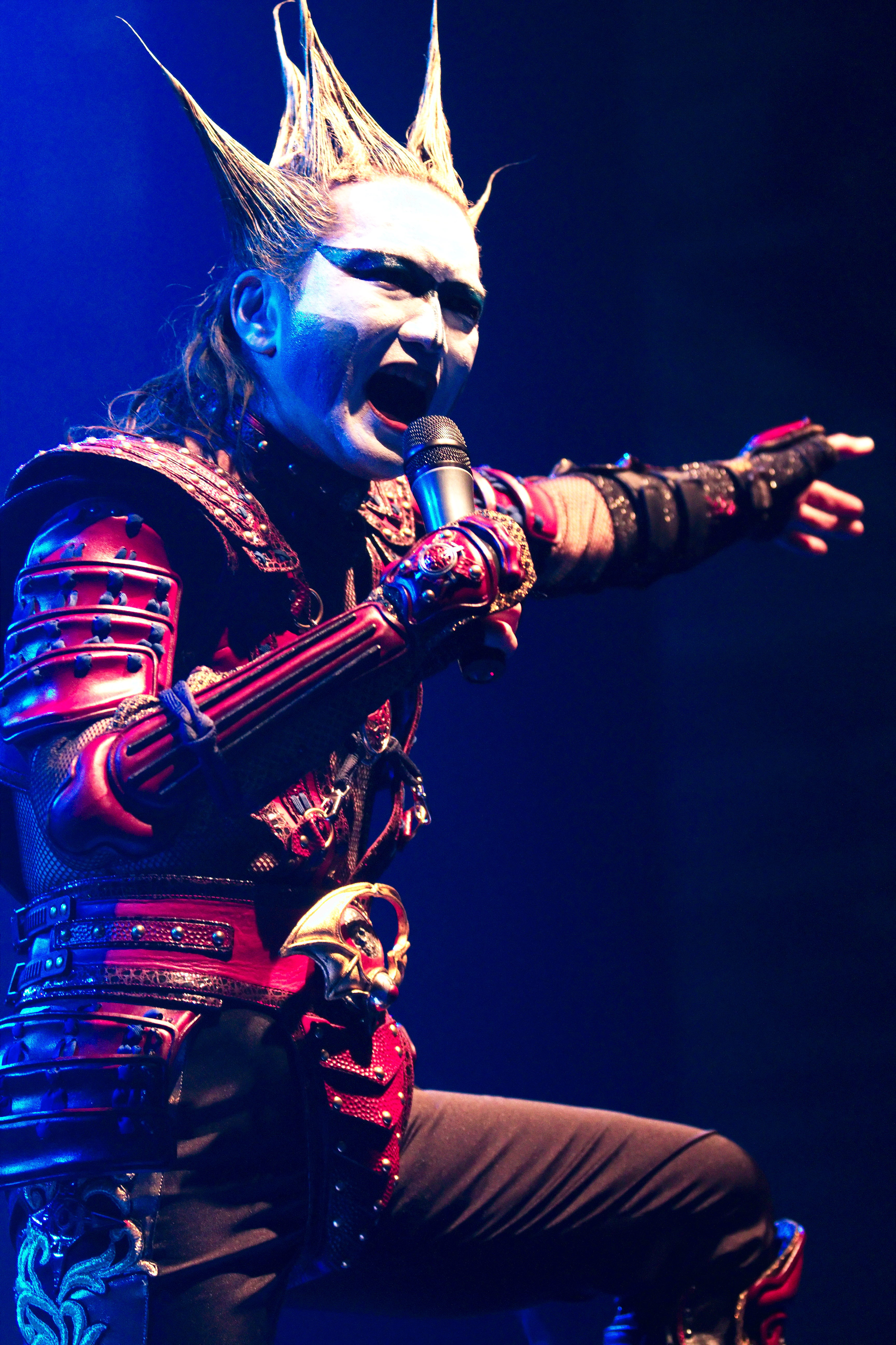 Seikima-II live at Japan Expo 2010 (Paris, France).